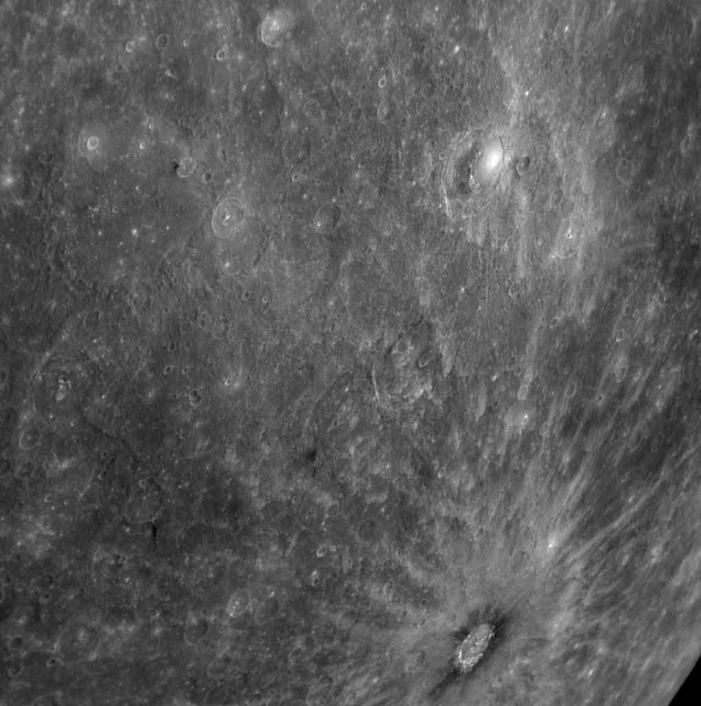 Though Basho crater is only about 80 kilometers (50 miles) in diameter, its bright rays make it an easily identified feature on Mercury's surface. In addition to the long bright rays, photographs from Mariner 10 showed an intriguing dark halo of material around the crater, which can be seen in the lower right portion of this Narrow Angle Camera (NAC) image snapped by MESSENGER's Mercury Dual Imaging System (MDIS) on January 14, 2008. The MESSENGER Science Team is using the full color data set obtained with the 11 filters of the Wide Angle Camera (WAC) to investigate the nature and composition of this dark material. Basho crater is visible near Mercury's limb in the southeastern portion of the WAC false color image previously released. The crater is named for the 17th-century Japanese poet Matsuo Basho, renowned for his many haiku. MESSENGER's images of Mercury's striking landscape have inspired at least one poet; read Stuart Atkinson's poem "MESSENGER's Memories."